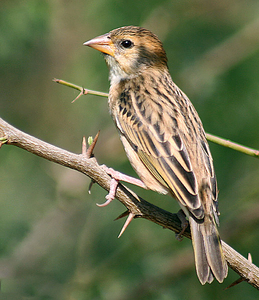 Baya Weaver Ploceus philippinus at Hodal in Faridabad District of Haryana, India.